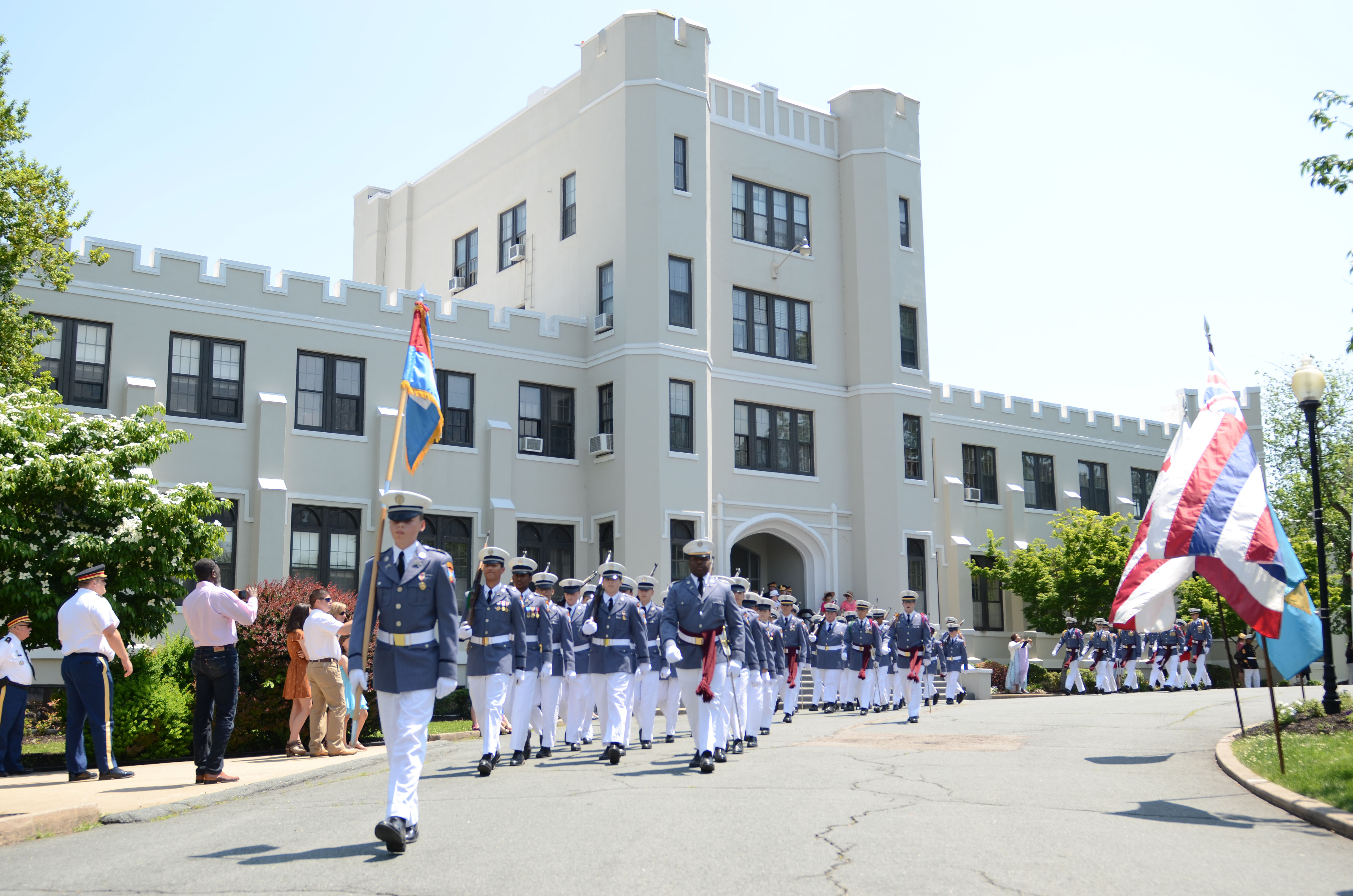 Fork Union Military Academy is a boys boarding school located in Fork Union, Virginia, USA. This picture was taken during the First Call for the Mothers Day Parade in May 2018.